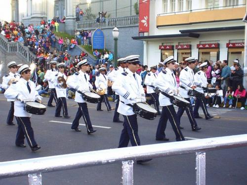 The Banda Marcial da Escola Santa Catarina (St. Catherine School Marching Band) performing at Praça Dante Alighieri (Dante Alighieri Plaza) in the centre of Caxias do Sul, Rio Grande do Sul, Brazil.